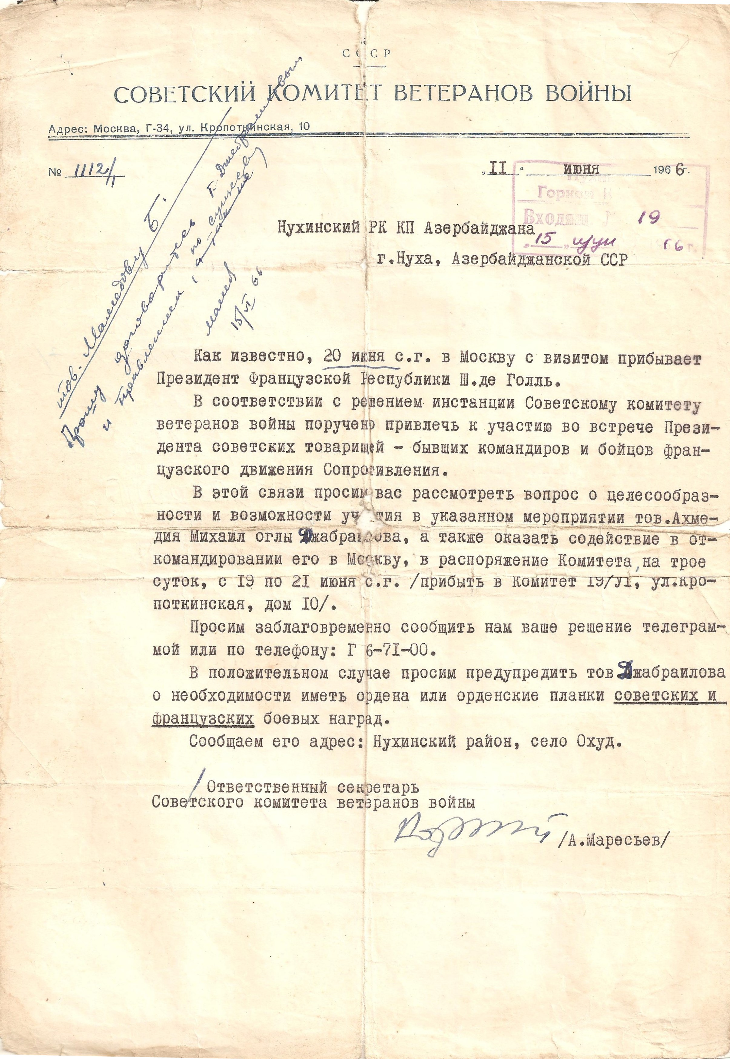 Letter from Maresyev to Jabrayilov